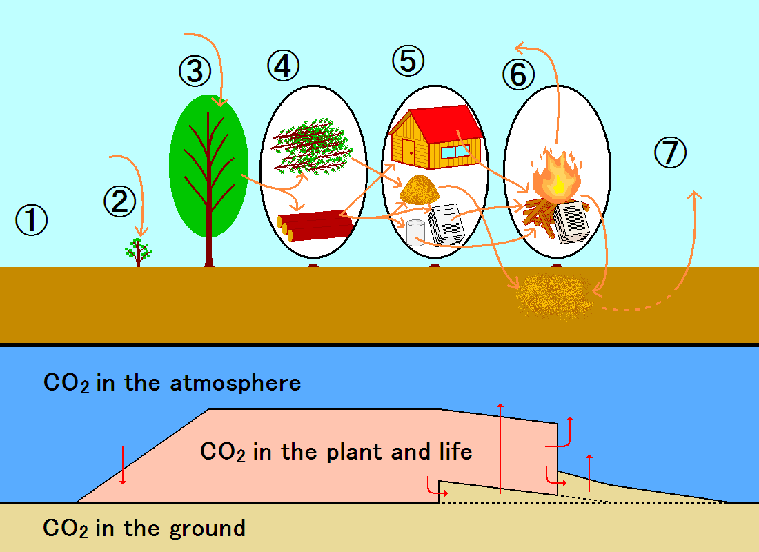 Carbon cycle of carbon neutral plant. Upper figure shows growth of the plant and carbon(or other Greenhouse gases)'s traveling. Lower figure(graph) shows carbon amount of atmosphere, ground and human life(as goods. For example, paper, wood...etc.). carbon in atmosphere - light blue carbon in plant and human life - light pink carbon in ground - light brown